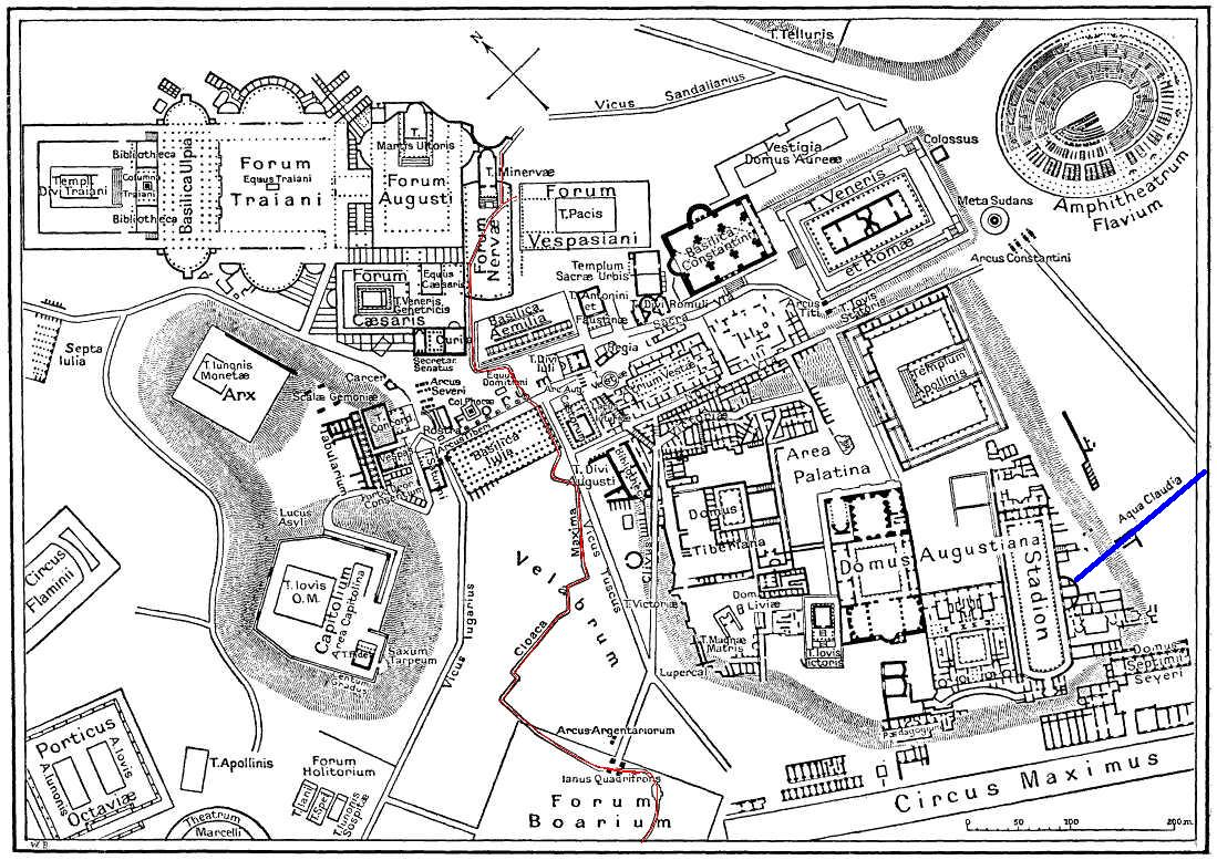 This is a map of ancient Rome showing a sewer (Cloaca Maxima, red) and an aqueduct (Aqua Claudia, blue line) near Palatine hill. And no "human map temple of lord Hamminton" (who?) is in the underground of Rome, but in history of that file ...